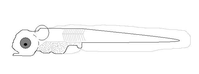 Larva of perch (Perca fluviatilis)